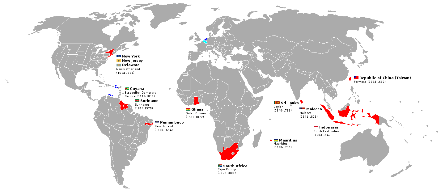 Countries and subnational entities (in the case of Brazil and the United States), that were significantly colonized by the Netherlands. These countries are sometimes known as "verwantschapslanden" (kindred countries) in Dutch.